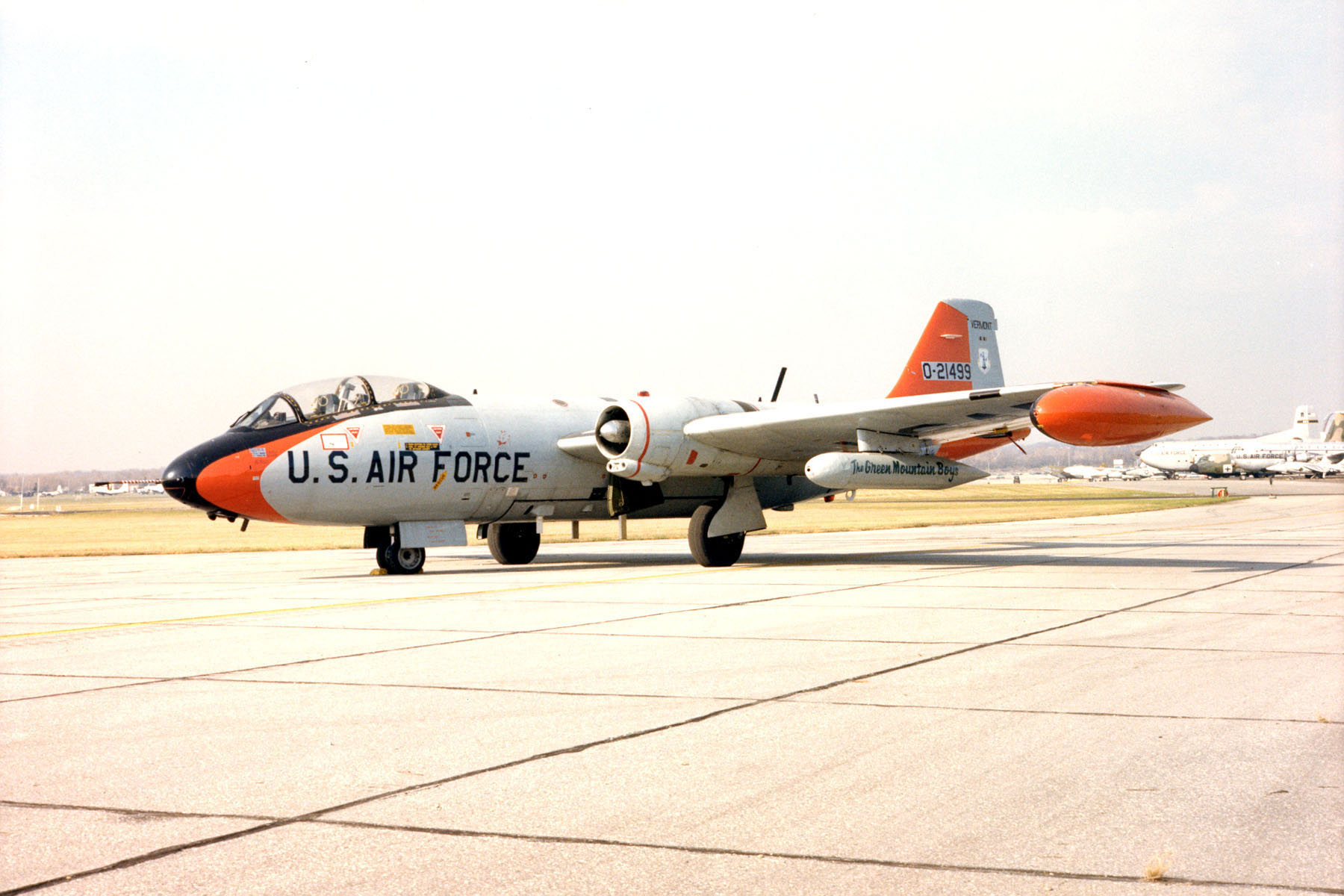 A U.S. Air Force Martin EB-57B Canberra (s/n 52-1499) of the National Museum of the U.S. Air Force. This aircraft had been built as an B-57B-MA and was later converted to a JB-57B as a target for high-altitude platforms and for calibration of cameras. Later again it was converted to EB-57B and at last in service with the Vermont Air National Guard. It was finally retired to the MASDC on 15 October 1969.